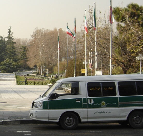 A Mitsubishi Delica Iranian Police van in Tehran, Iran. On the side of the vehicle on the windows is written: "Morality guidance Patrol".